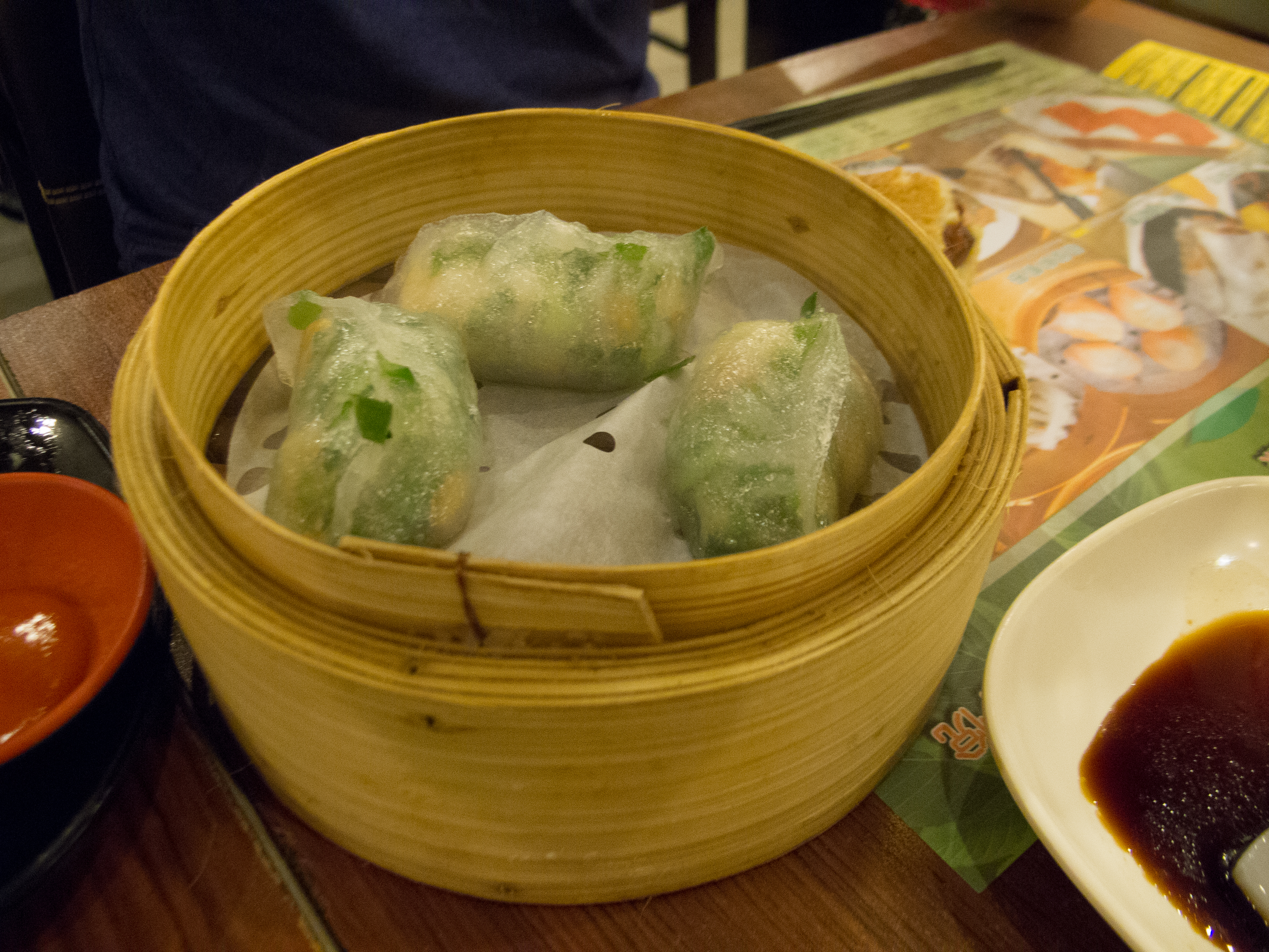 Vegetable Seedling Dumplings